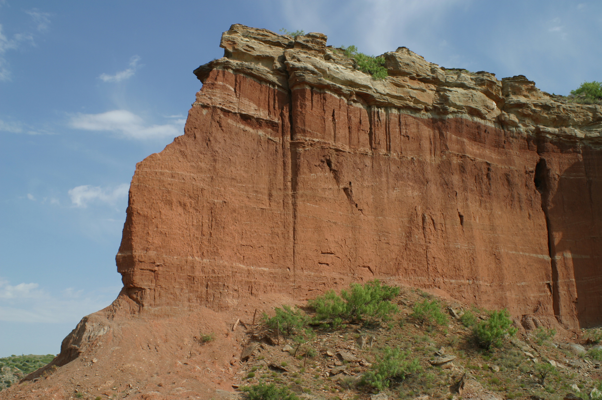 Rock formation in Tule Canyon, Briscoe County, Texas.